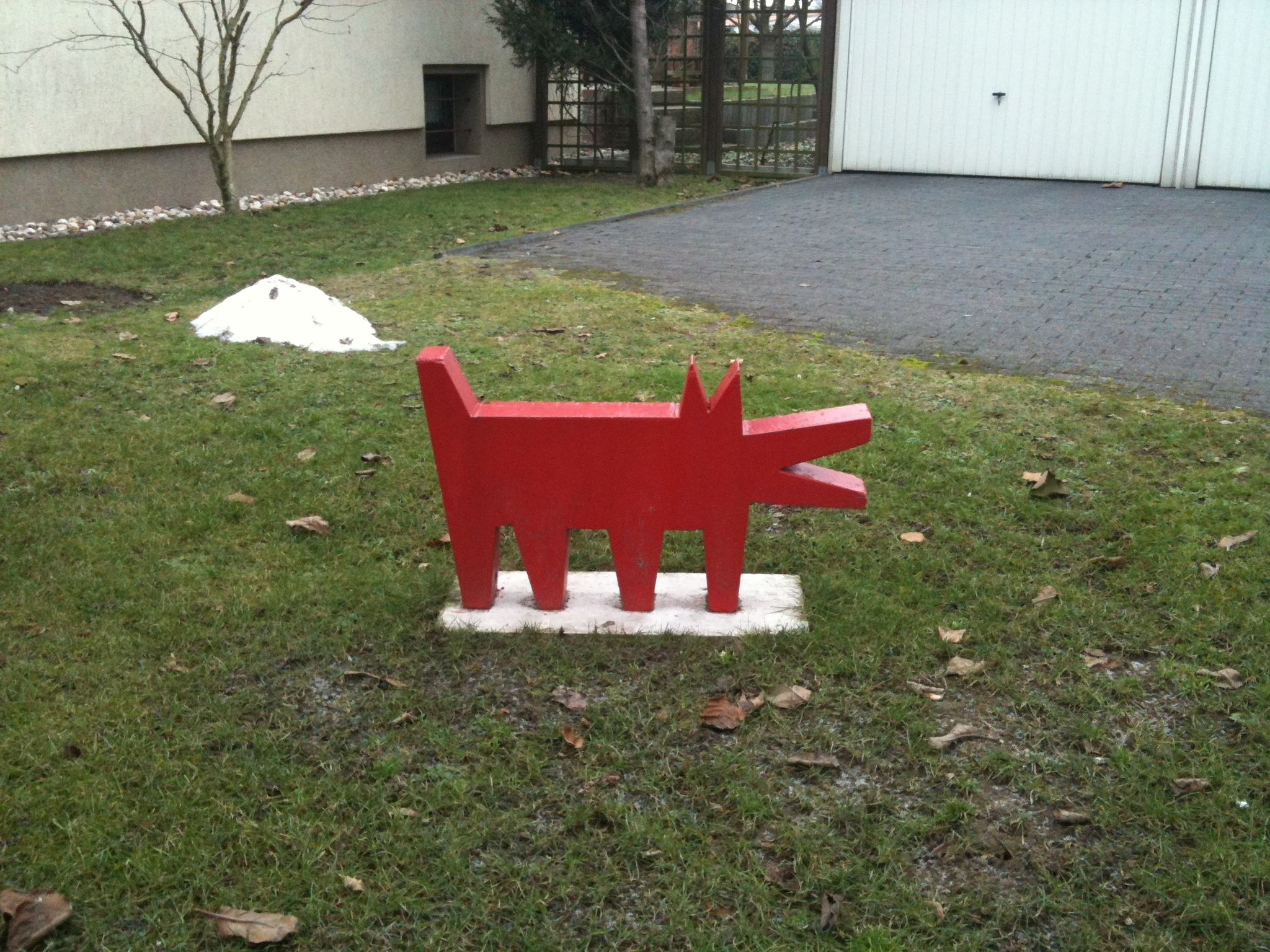 Sculpture by Keith Haring in Dortmund Brackel/Germany